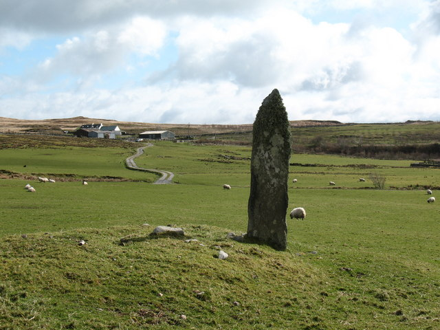 Standing stone at Tarbert. The stone is close to the A846 at Tarbert and stands between 2 and 3 metres high.